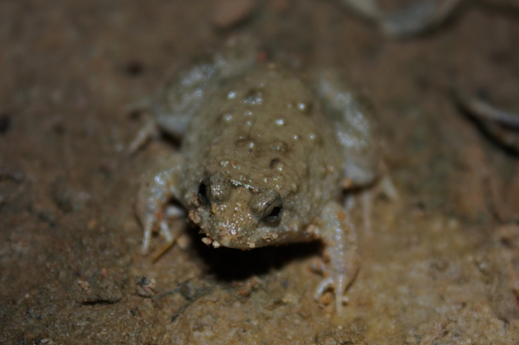 Found next to rain pools near the Angkor temple complex.